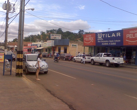 St. Pedro Celestino